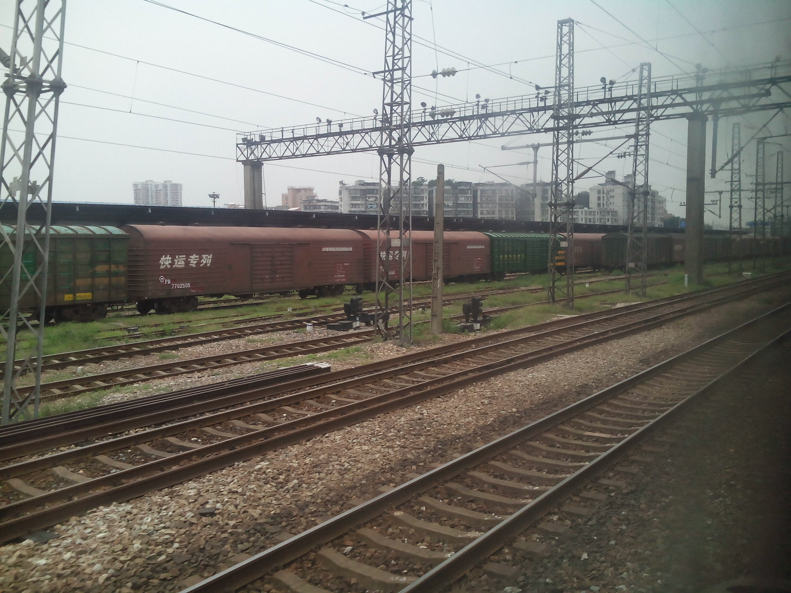 201504 Tangxi Railway Station